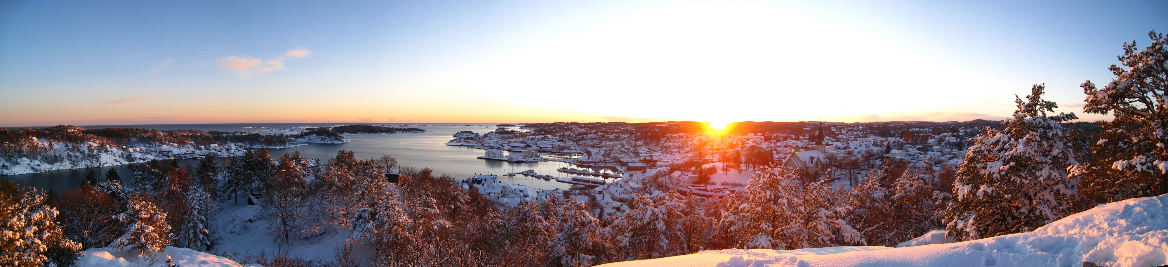 Panoramic photograph taken of Grimstad and small islands (Skjærgård) from the look-out point Binabben.